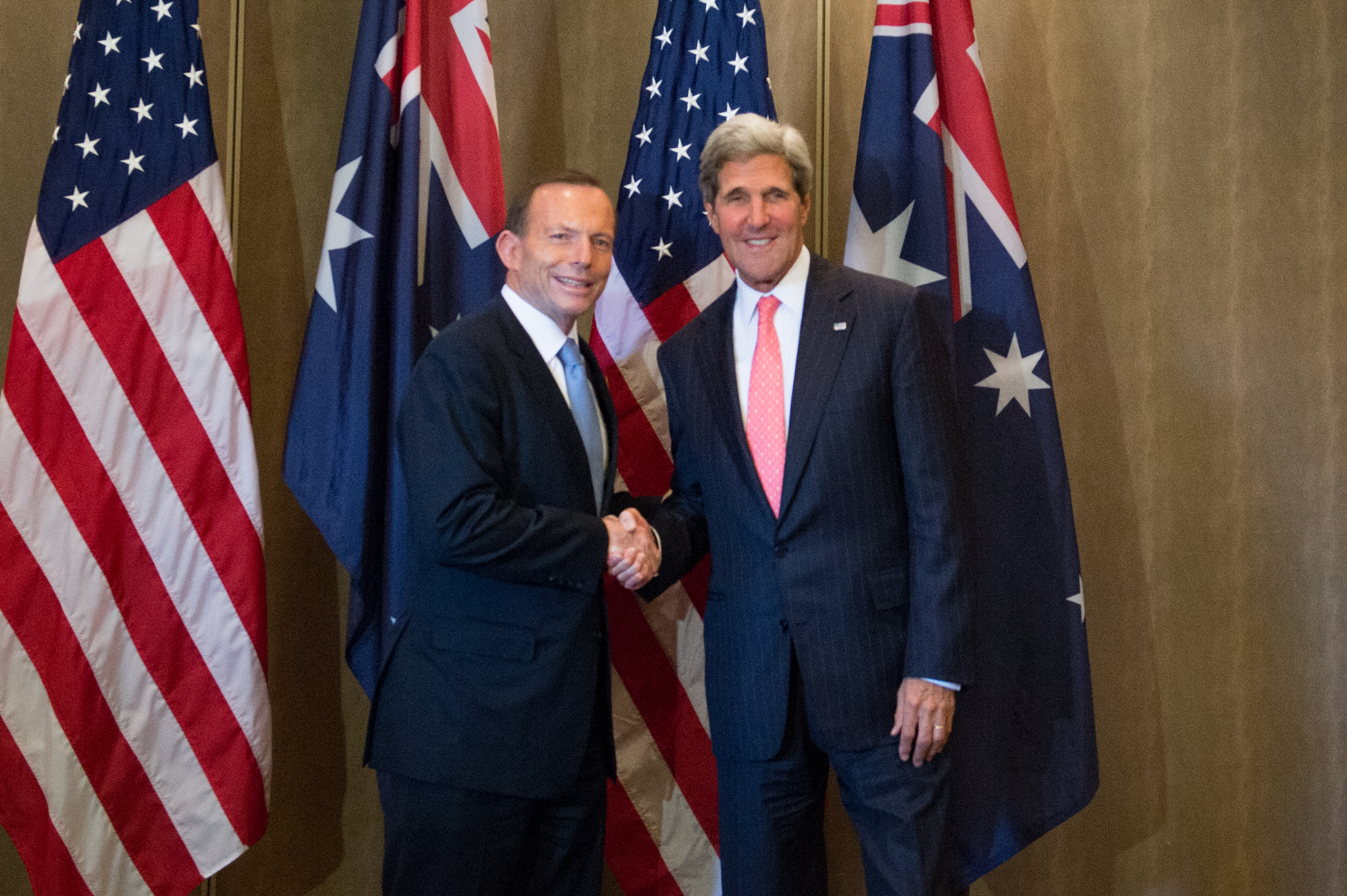 Bali, Indonesia (October 8, 2013) U.S. Secretary of State John Kerry greets Australia's Prime Minister Tony Abbott before their meeting. [State Department photo by William Ng/Public Domain]